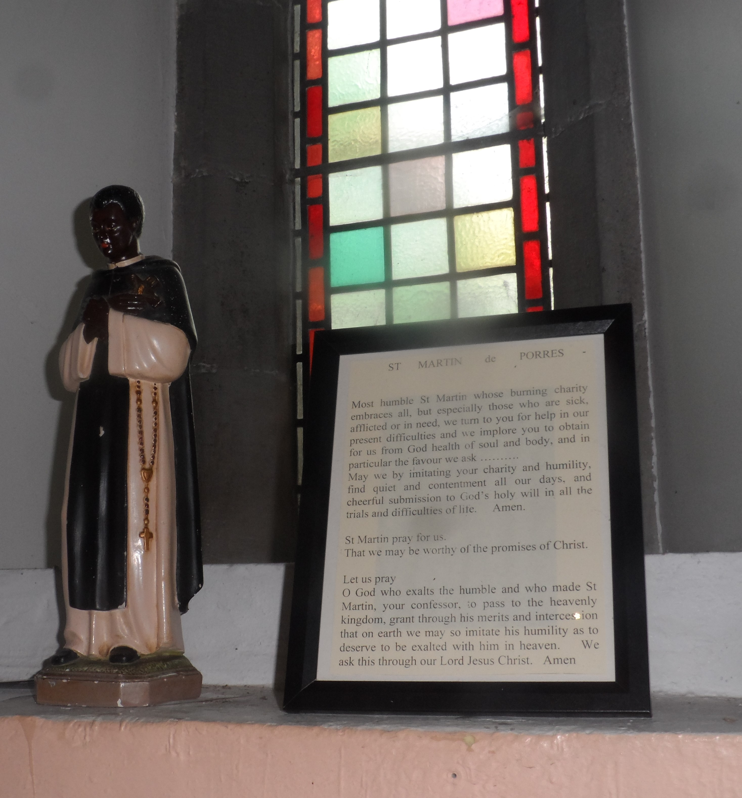 Black saint, Kildare